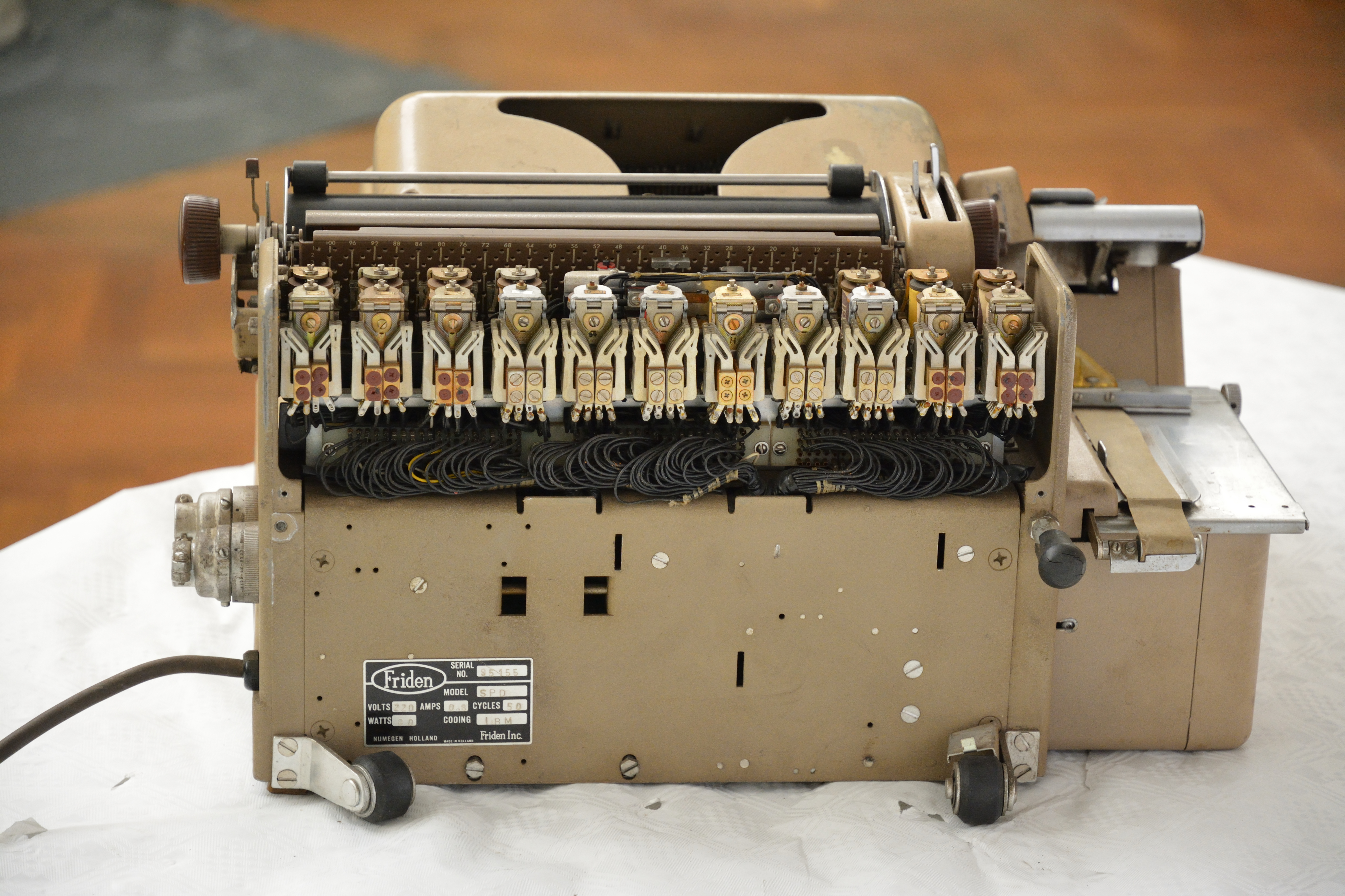 Back of a Friden Flexowriter with covers removed to show relay logic. Photographed at the former telecommunications central office in Elmshorn The making of this document was supported by the Community-Budget of Wikimedia Germany.